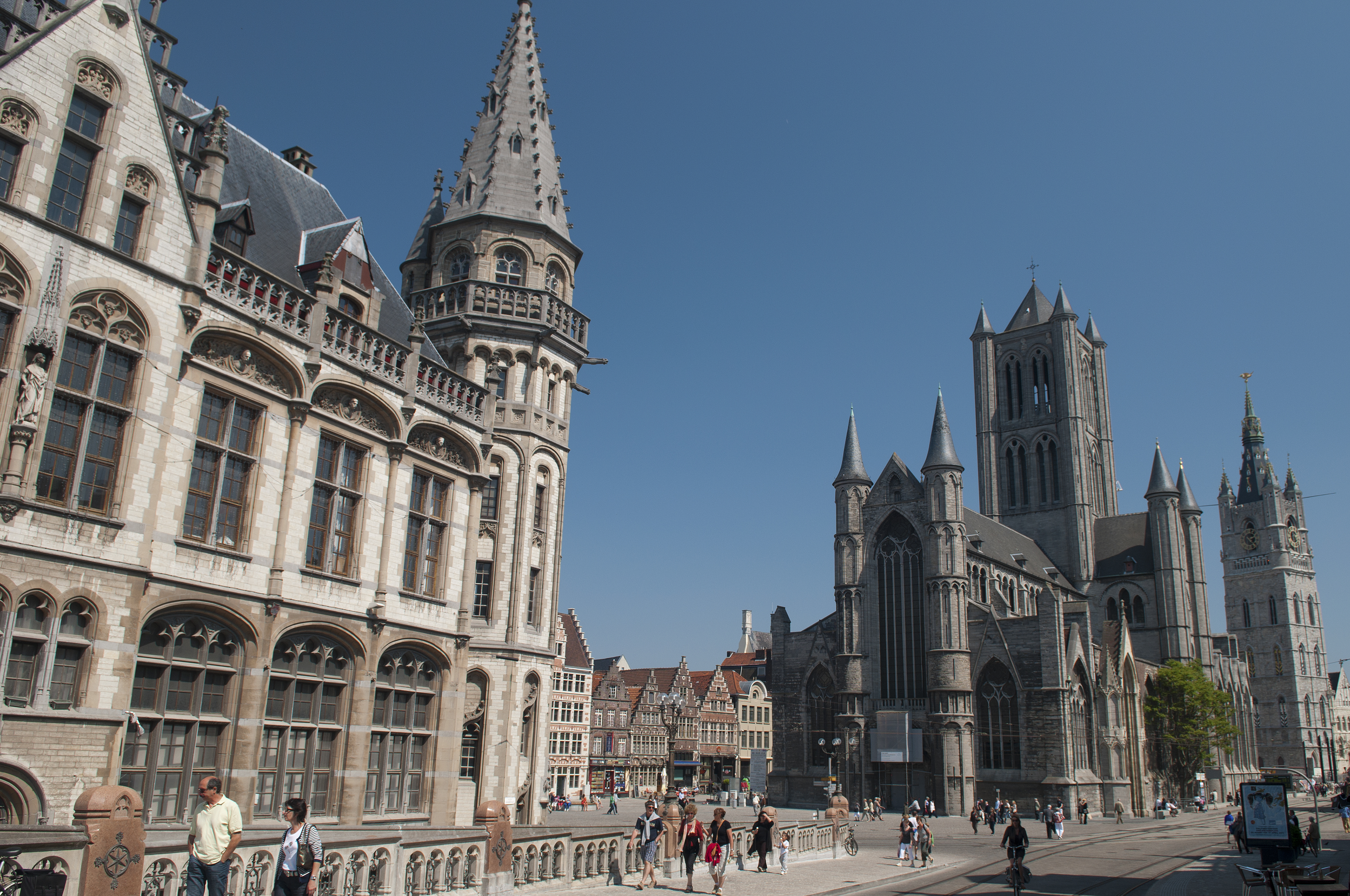 Ghent. From left - Old post office, Saint-Nicholas Church and Belfry